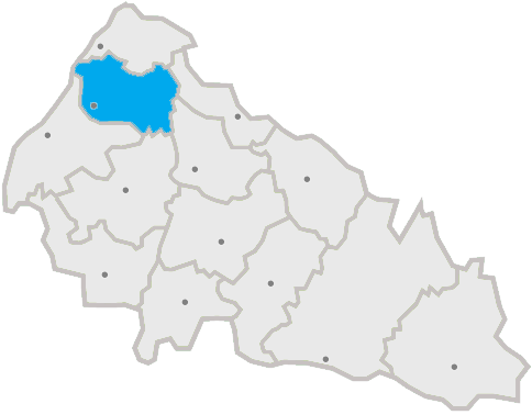 Ukraine, Oblast Transcarpathia, Rajon Perechyn highlighted